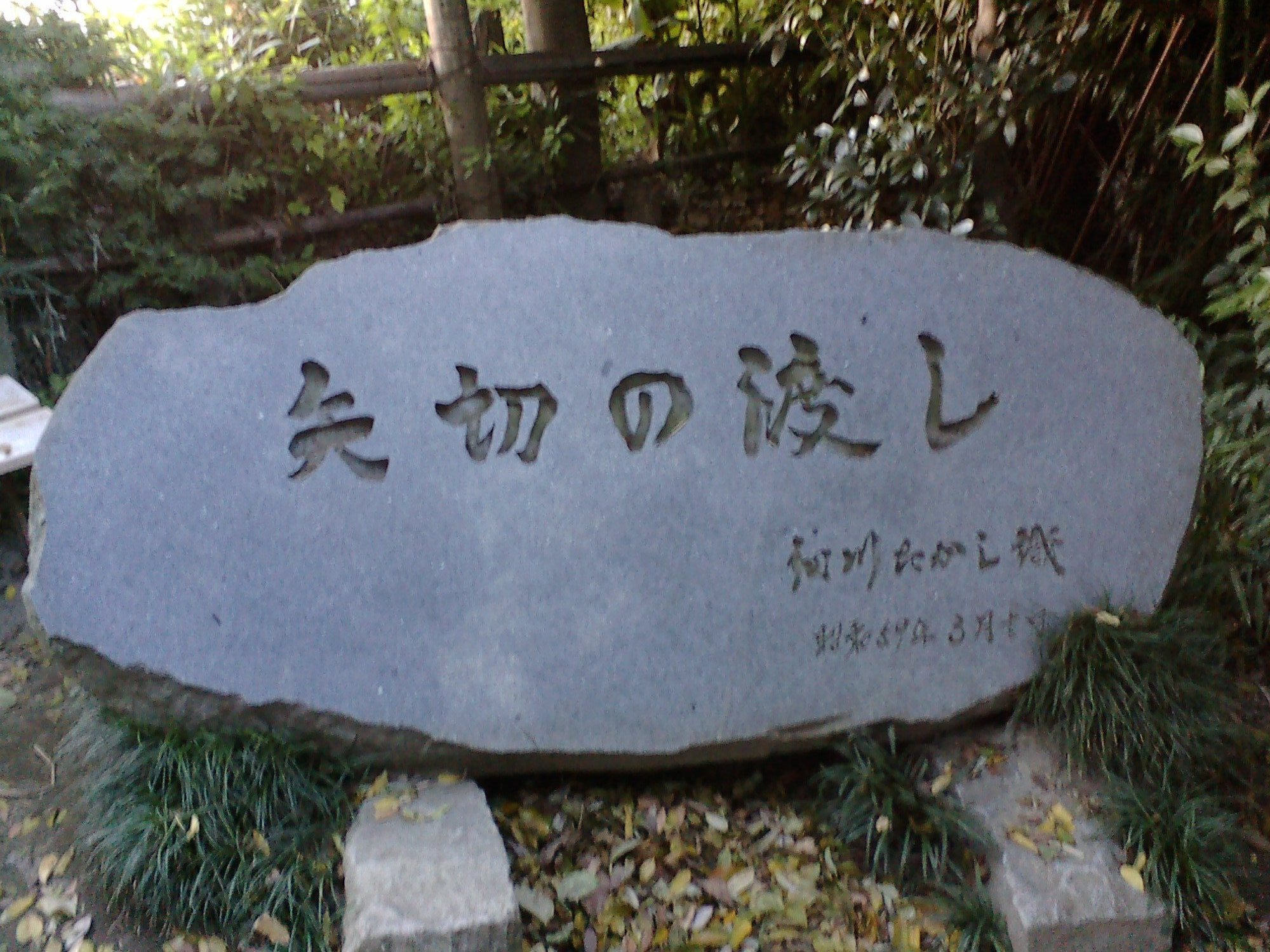 Stele, Yagirono watashi (ferry landing place), donated by Hosokawa Takashi, Edo River Matsudo, Chiba Japan, good day March 1984.